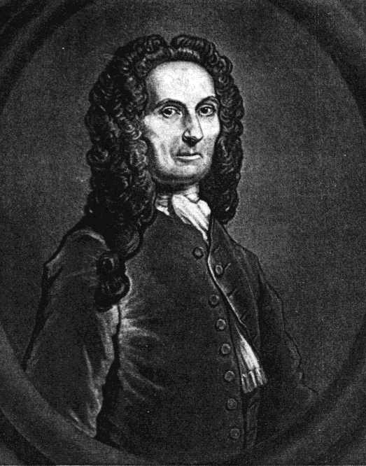 Portrait of Abraham de Moivre, French mathematician